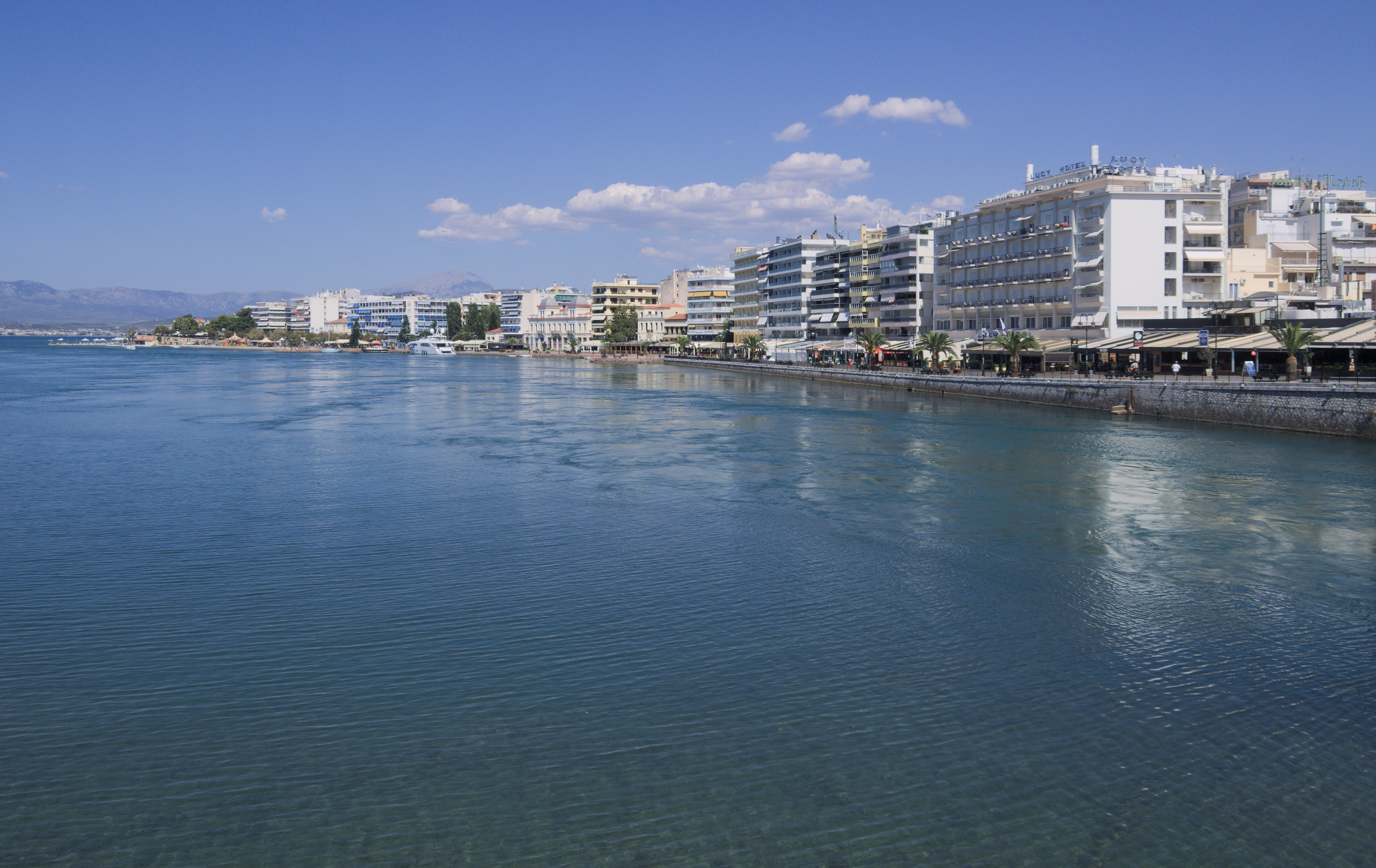 View of Chalkida and the Evripos strait. The movement of the water is a tidal phenomenon, with water flowing from the south to north Euboean bay (like in the photo) and vice versa through the narrowest part of Evripos (less than 40 metres wide) every 6 hours.